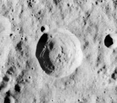 Glazenap, on the moon.